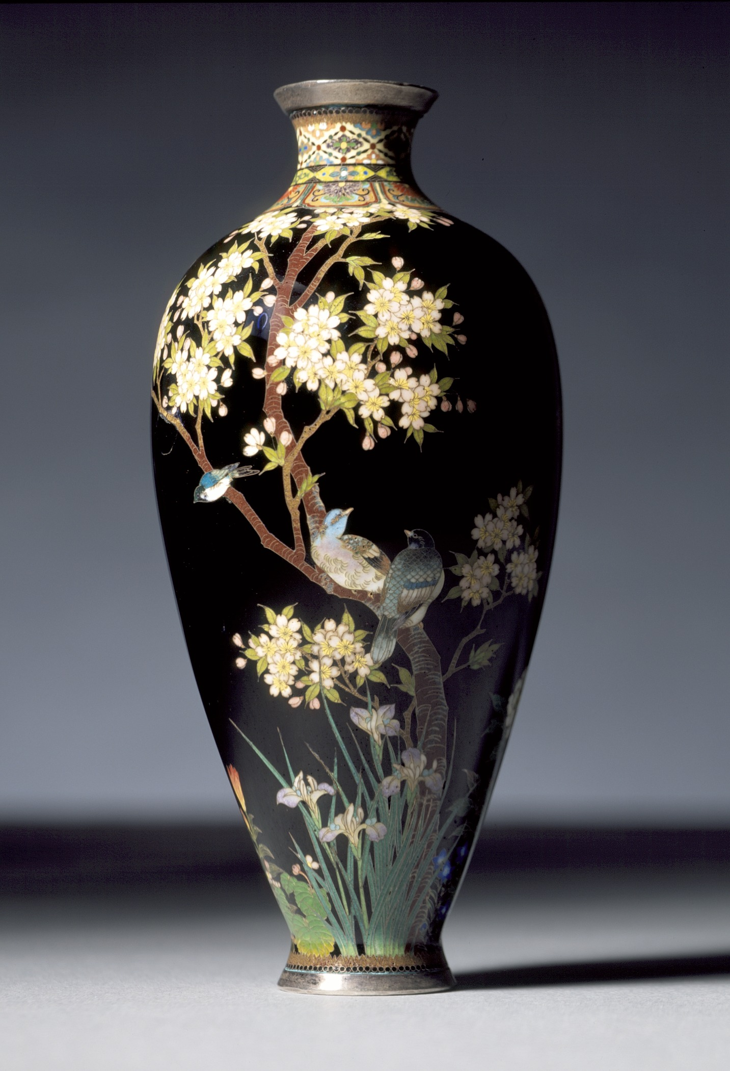 Japan, 19th century Furnishings; Accessories Cloisonne with silver wire, silver mounts on copper body 6 1/4 x 2 7/8 x 2 7/8 in. (15.9 x 7.3 x 7.3 cm) Gift of Mr. and Mrs. Eugene Tosk (M.91.251.1) Japanese Art